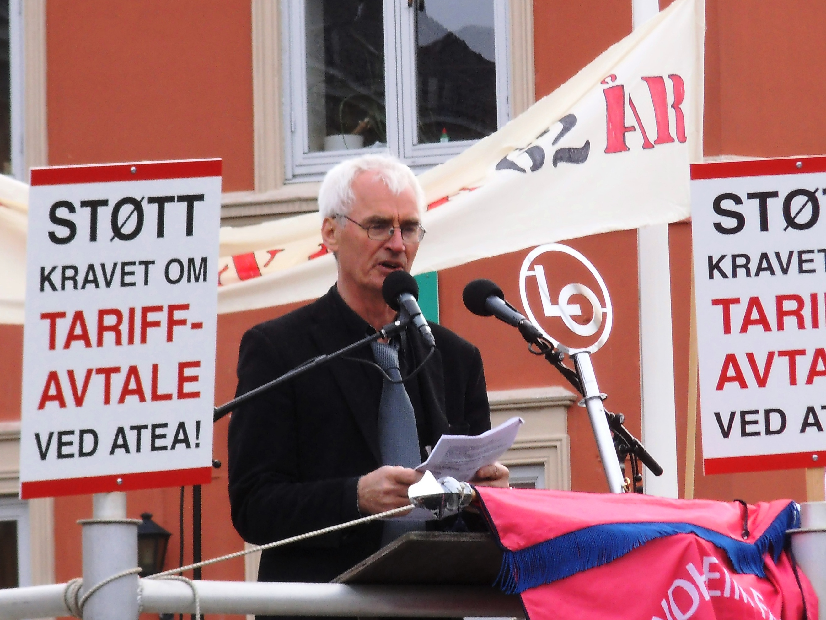 Arne Byrkjeflot holds a speech on International Workers' Day 2013 in Trondheim.